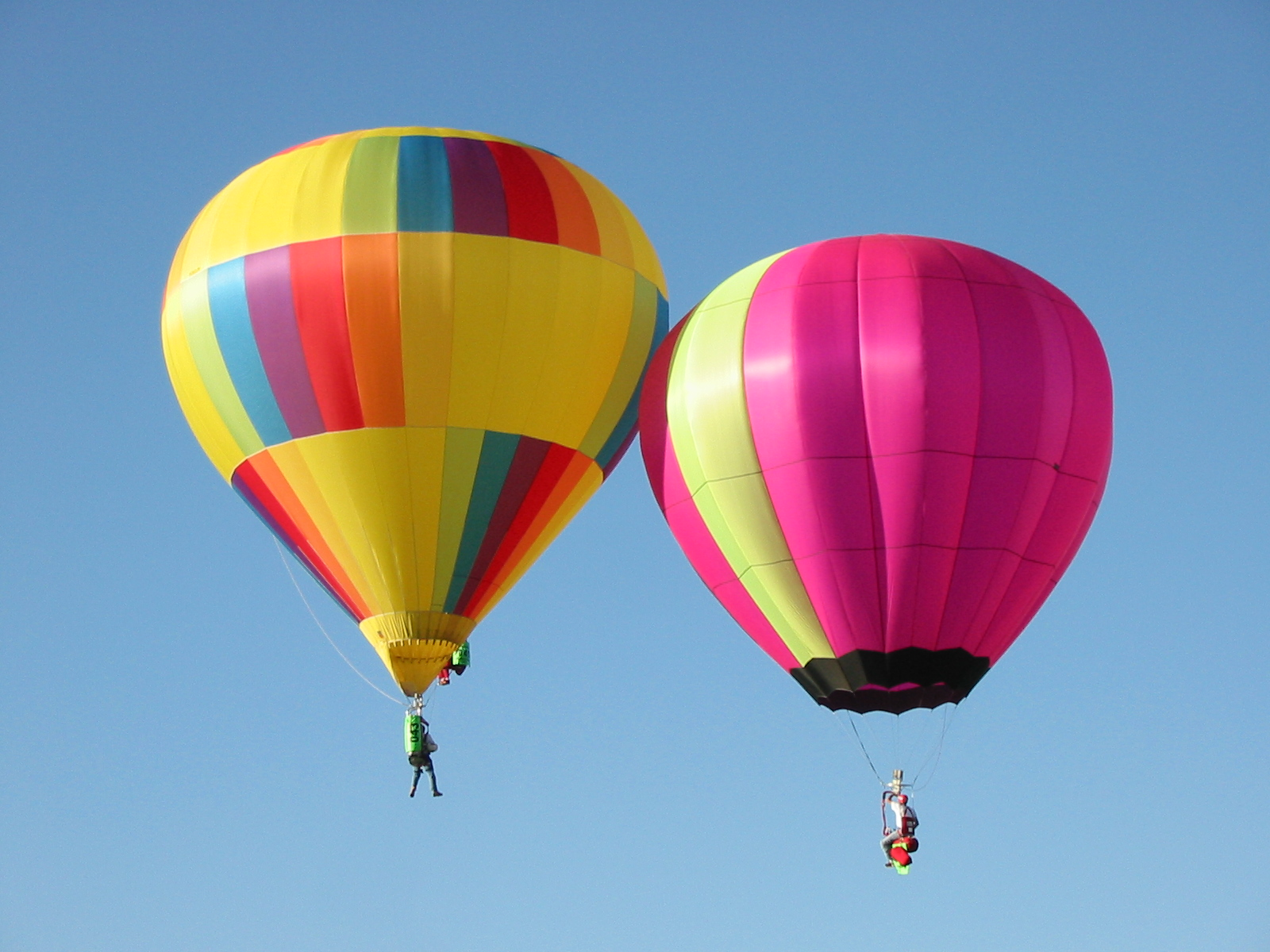 Photo by Roland Escher; Lindstrand Cloudhopper and MacNutt Ran-out-of-Pink experimental balloon; taken at Albuquerque International Balloon Fiesta in 2003